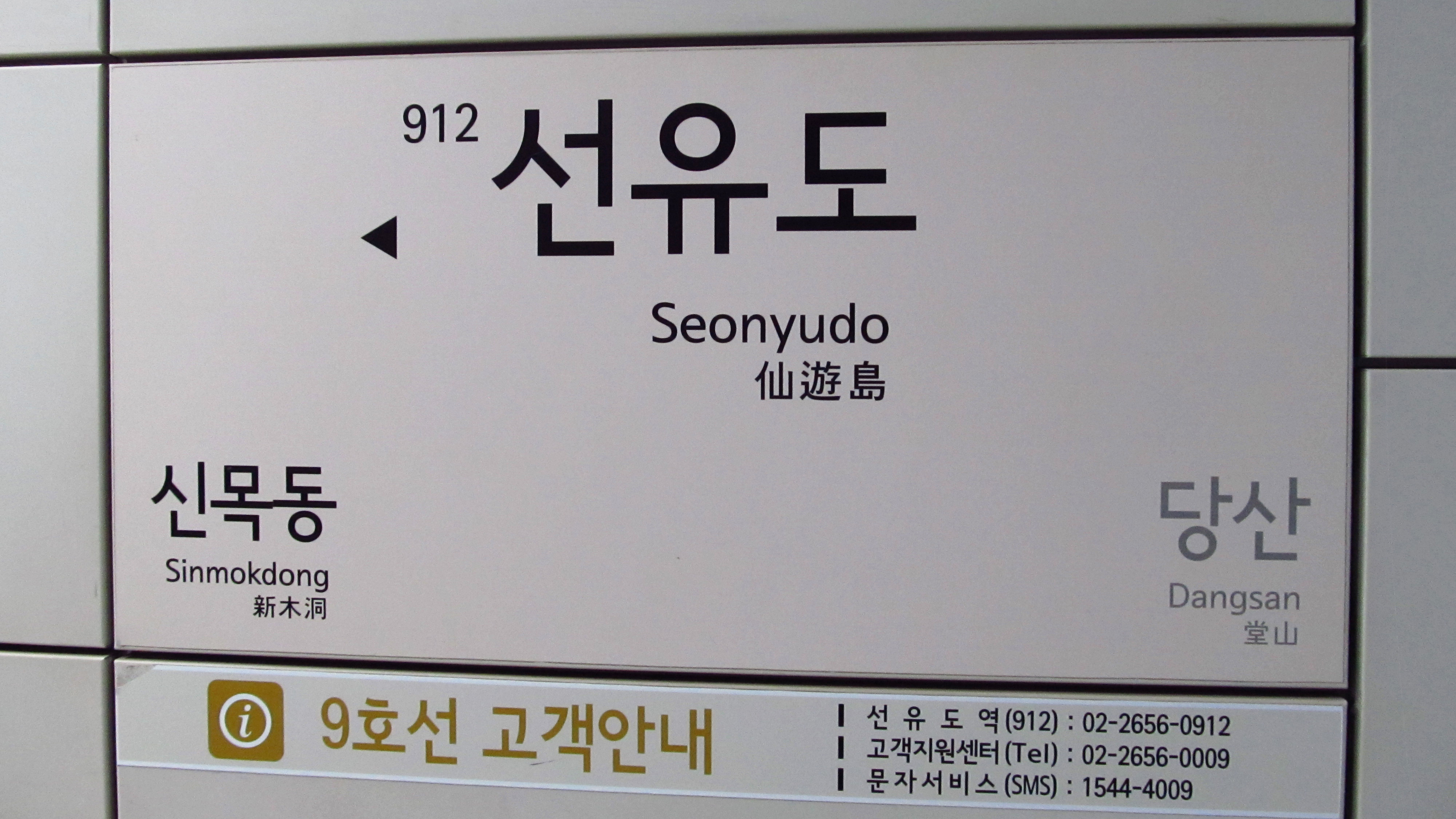 A sign of Seonyudo Station on Seoul Subway Line 9